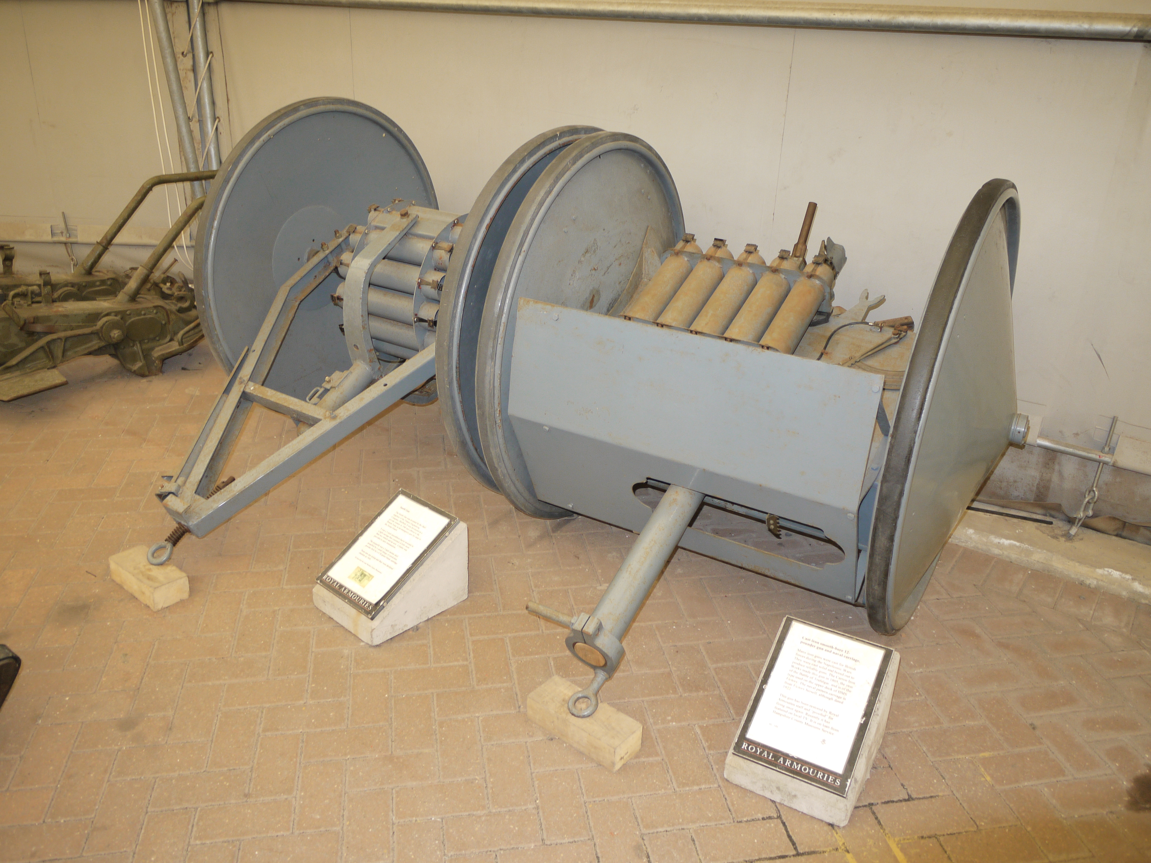 Photo of a smith gun and limber